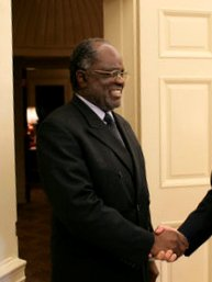 Meeting with the leaders from Mozambique, Botswana, Niger, Ghana and Namibia, President George W. Bush welcomes President Armando Guebuza of Mozambique to the Oval Office Monday, June 13, 2005. The leaders discussed a range of topics, including AGOA. "All the Presidents gathered here represent countries that have held democratic elections in the last year," said President Bush. "What a strong statement that these leaders have made about democracy and the importance of democracy on the continent of Africa." White House photo by Eric Draper.